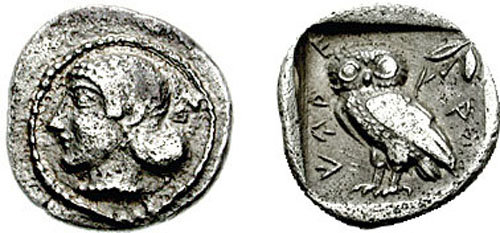 DYNASTS of LYCIA. Kheriga. Circa 450-410 BC